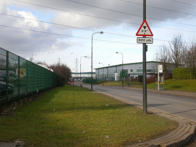 Broadgate, Broadgate Business Park